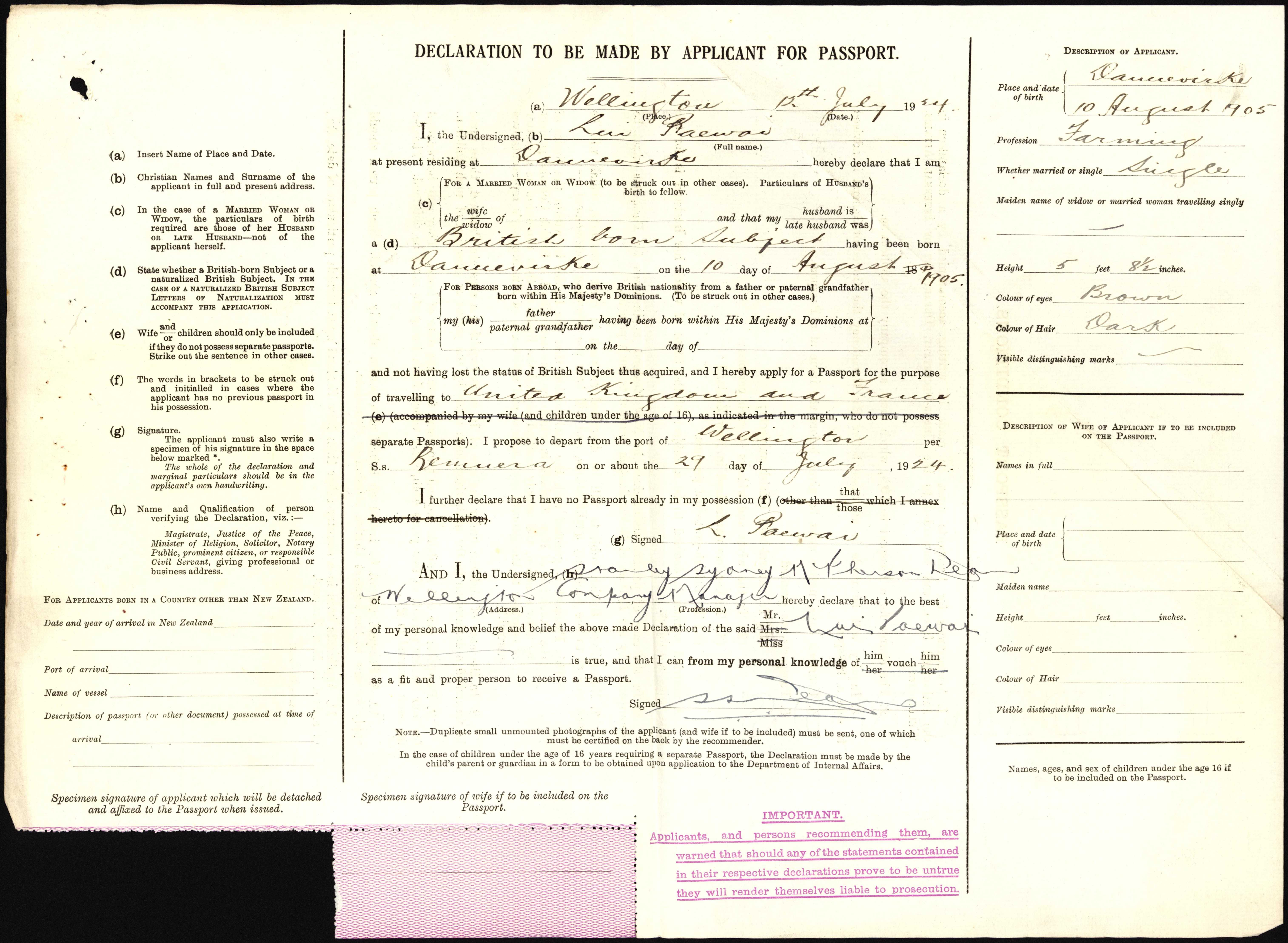 ACGO 8333 IA1 1349 / 15/11/17721 Lui Paewai passport application (1924)